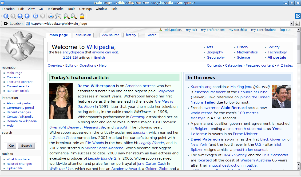 The English Wikipedia Main Page using Konqueror 3.5.8